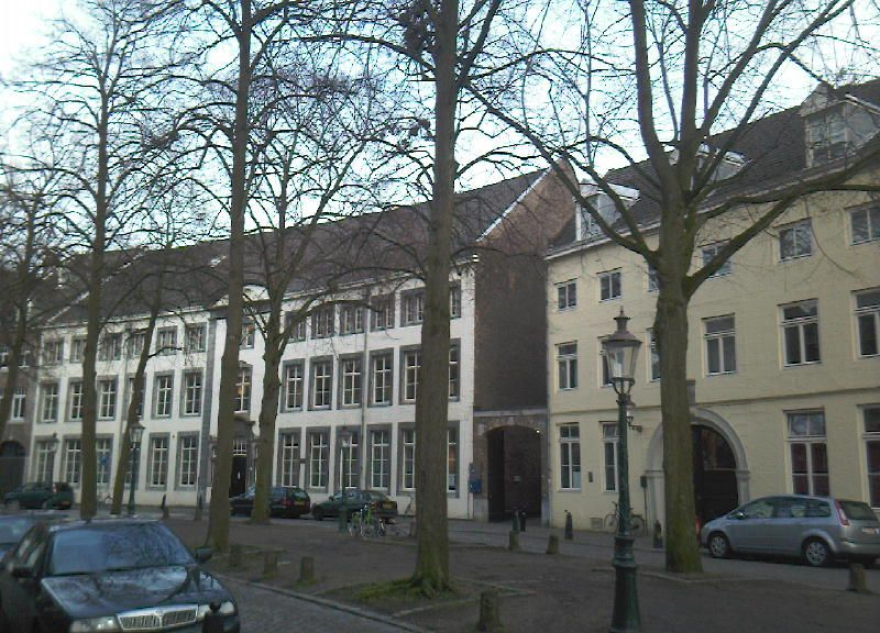 Overview of the Grote Looiersstraat including the entrance gate to the Universiteit Maastricht inner city library in the Jekerkwartier neighbourhood of Maastricht, Limburg, The Netherlands